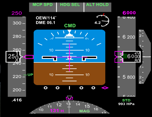 Primary Flight Display of Boeing 737-800 aircraft.